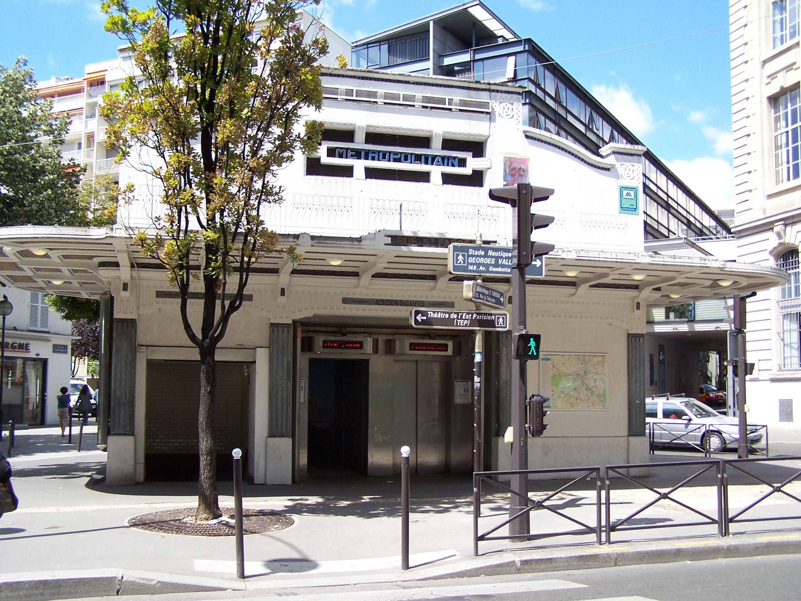 Entrance of the Saint-Fargeau subway station at avenue Gambetta, Paris